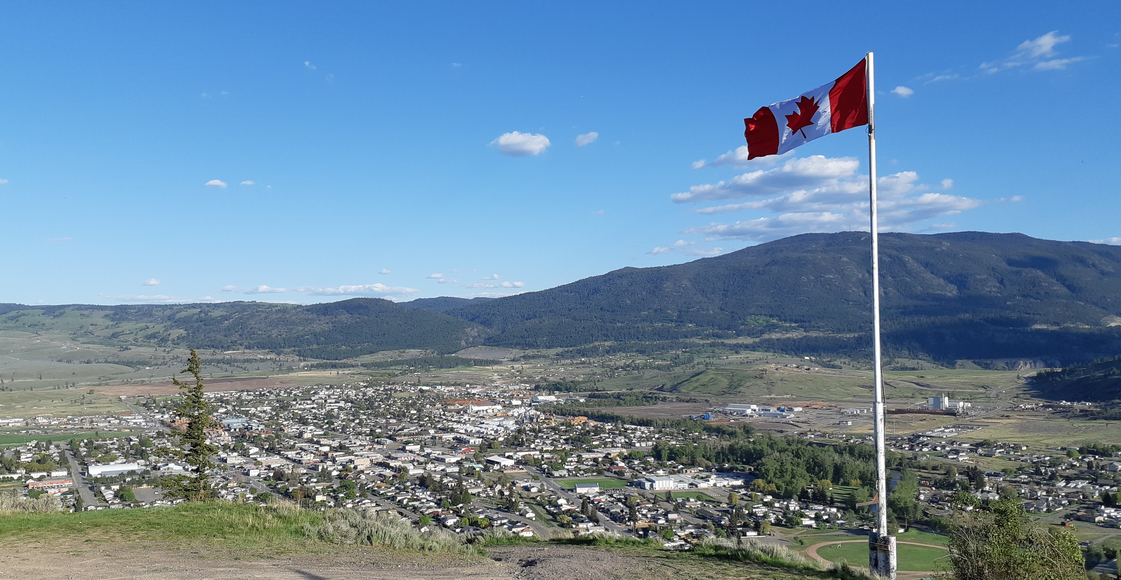 Merritt is a city in British Columbia, Canada. This photo is taken from a privately-owned, publicly-accessible lookout point, and shows the city in the Nicola valley on a summer's day, with a large Canadian flag flying